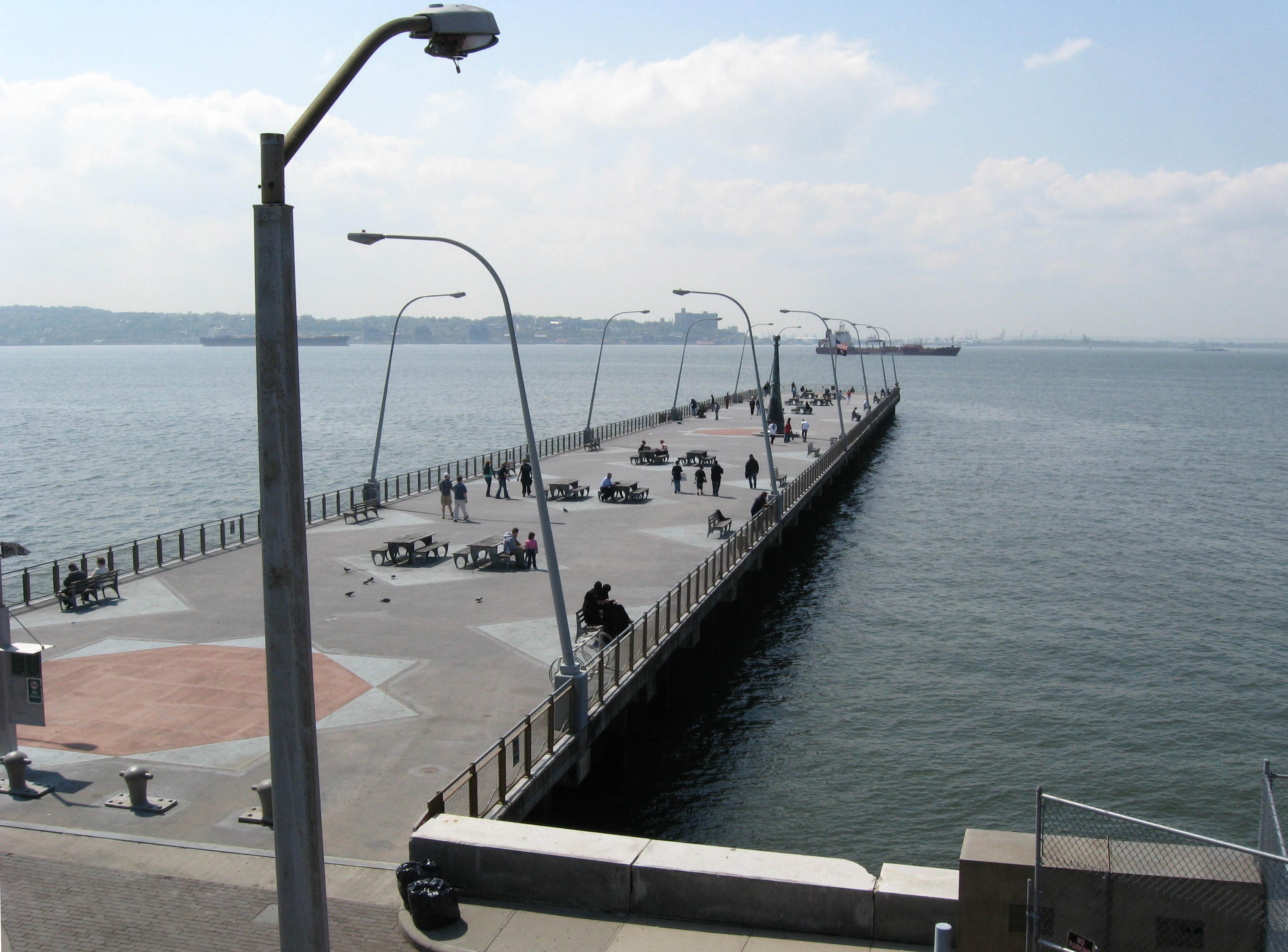 Bay Ridge 69th Street pier. Looking west from the downramp of Gowanus Expressway to Shore Parkway at American Veterans Memorial Pier on a springtime sunny early afternoon during the Five Boro Bike Tour. Staten island background left; Bayonne far background right.